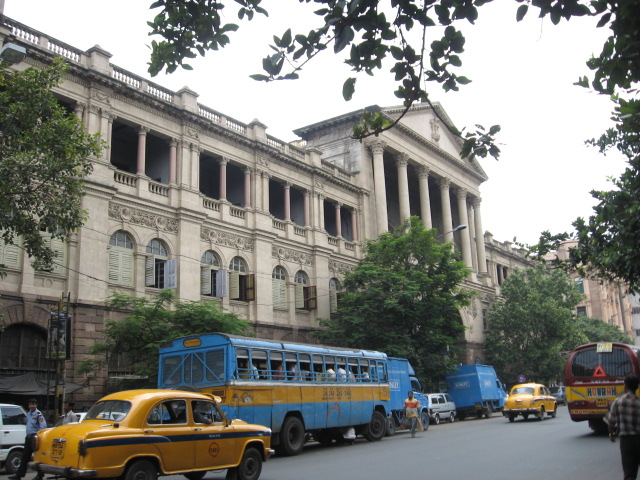 Military Secretariat at Esplanade Row (East) in Kolkata